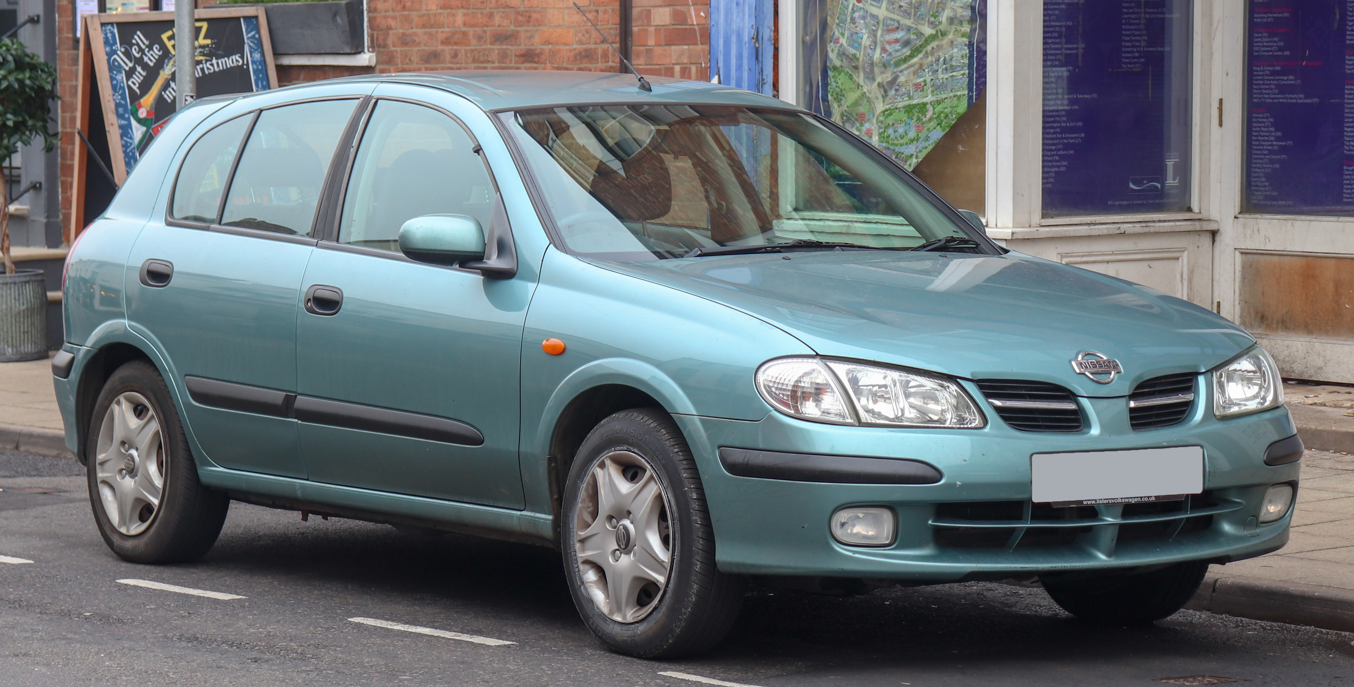 2003 Nissan Almera E 1.5 Front Taken in Leamington Spa